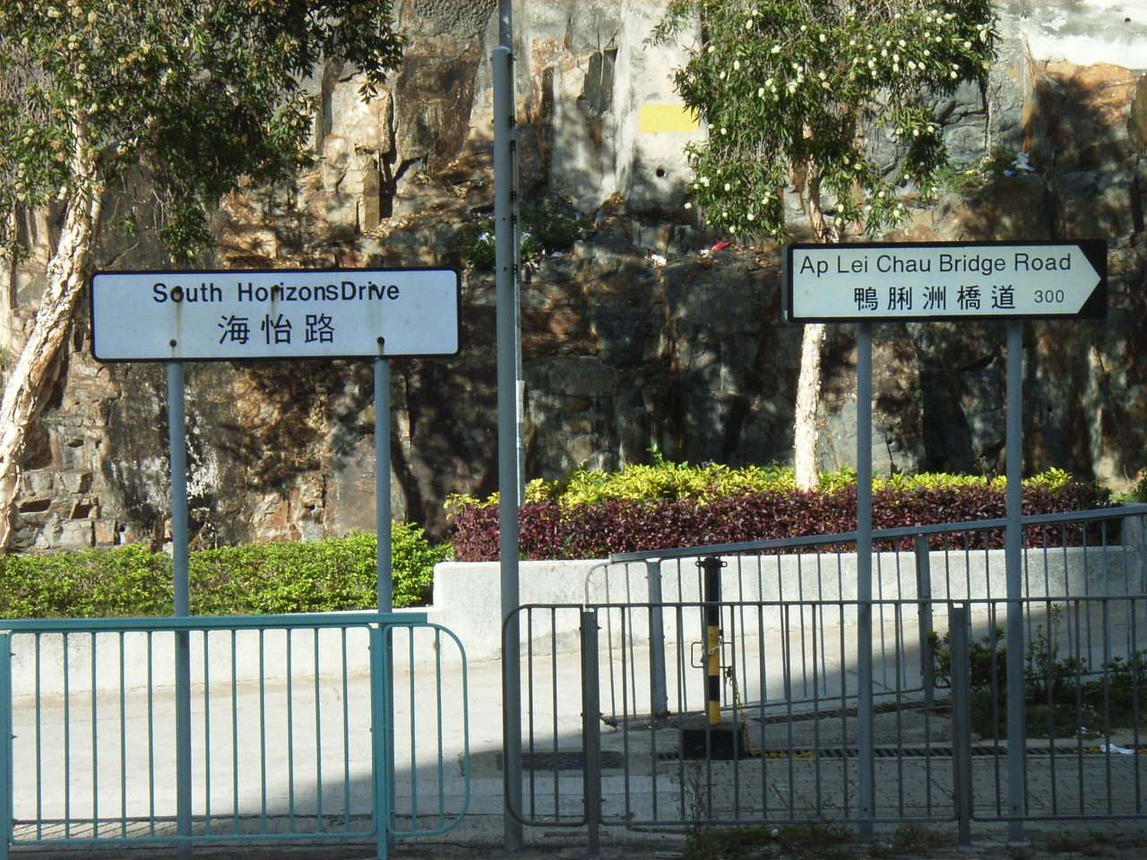 鴨脷洲橋道 與海怡半島屋苑 之交接點. Ap Lei Chau Bridge Road, Hong Kong Photographer:User:Apade1872